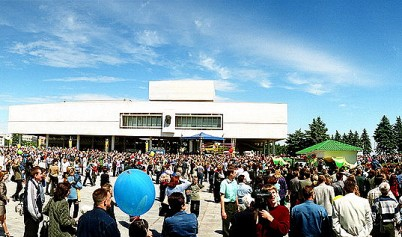 Memorial Museum of Lenin in Ulyanovsk.